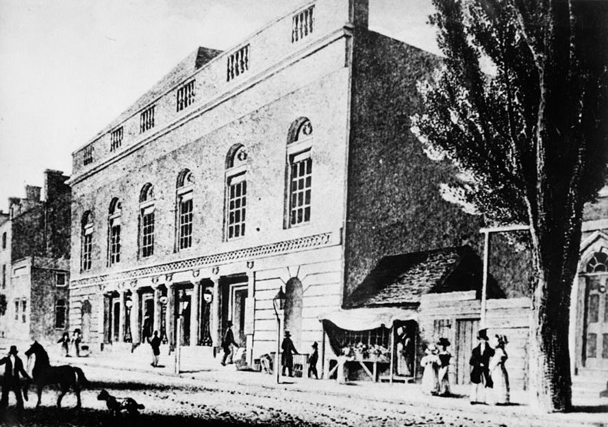 Drawing of Walnut Street Theatre, Philadelphia, Pennsylvania